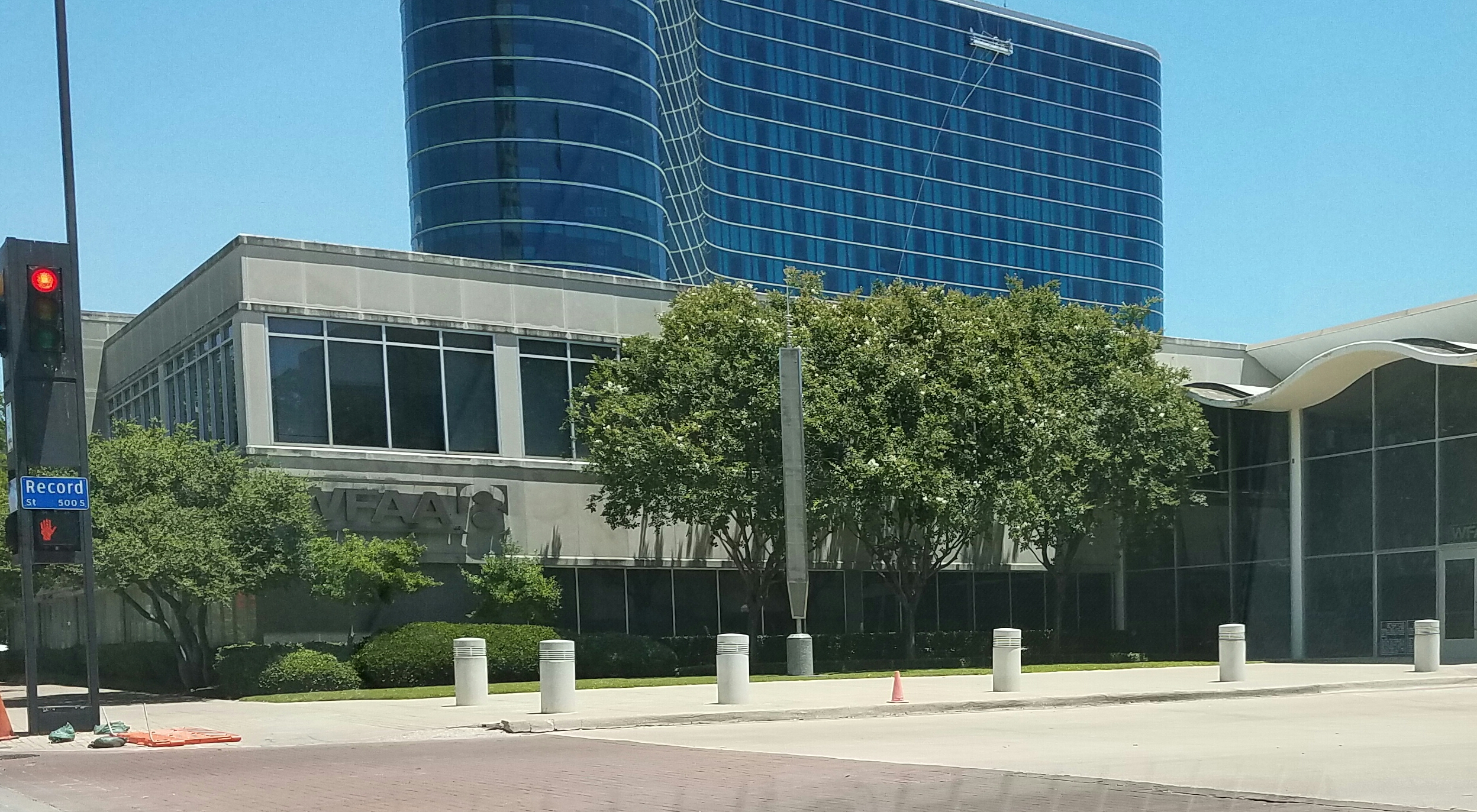 Front of building at WFAA, a TV station in Dallas, Texas, which includes main studios and offices.